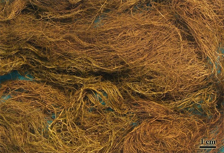 Picture of wila (Bryoria fremontii), an arboreal hair lichen.